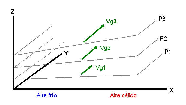 Thermal wind generation as difference of geostrophic wind